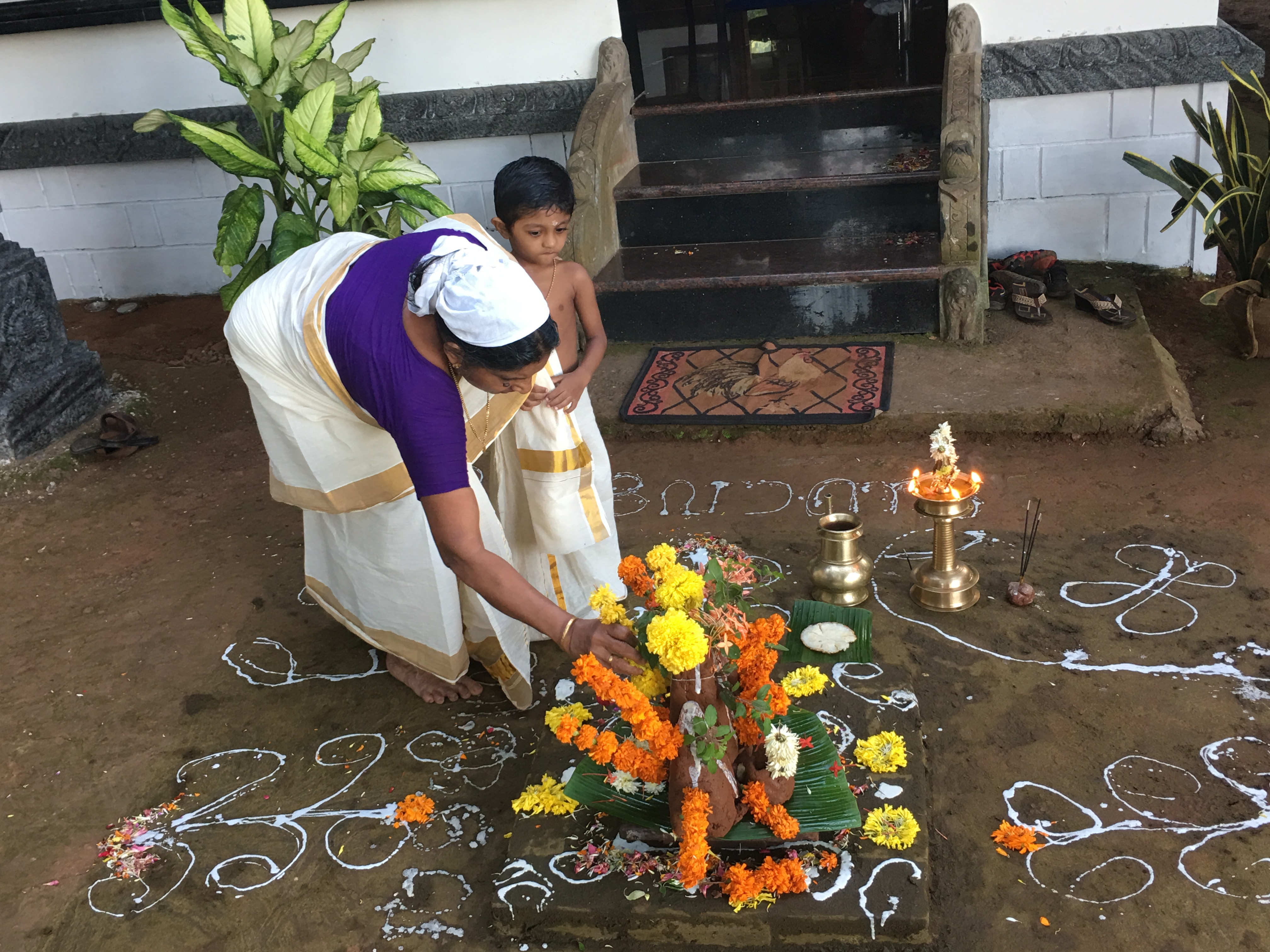 Onam Floral Design, Thrikkakkara Appan